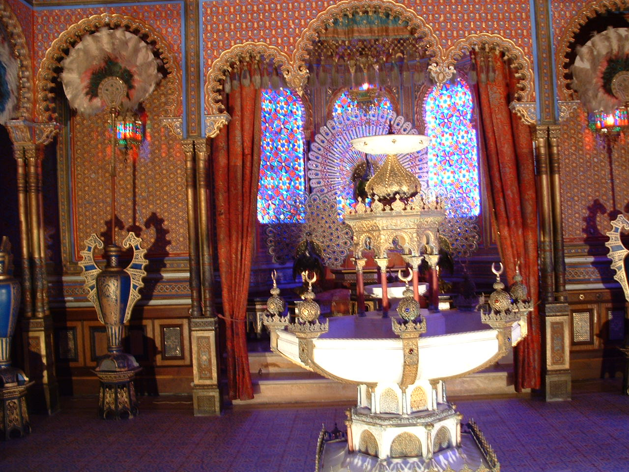 The Moorish kiosk in Linderhof.